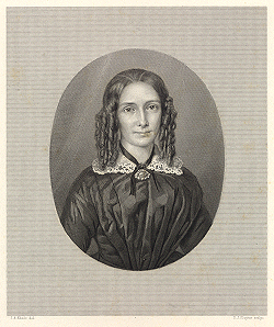 A portrait of Anna Louisa Geertruida Bosboom-Toussaint, Dutch writer (1812 - 1886).